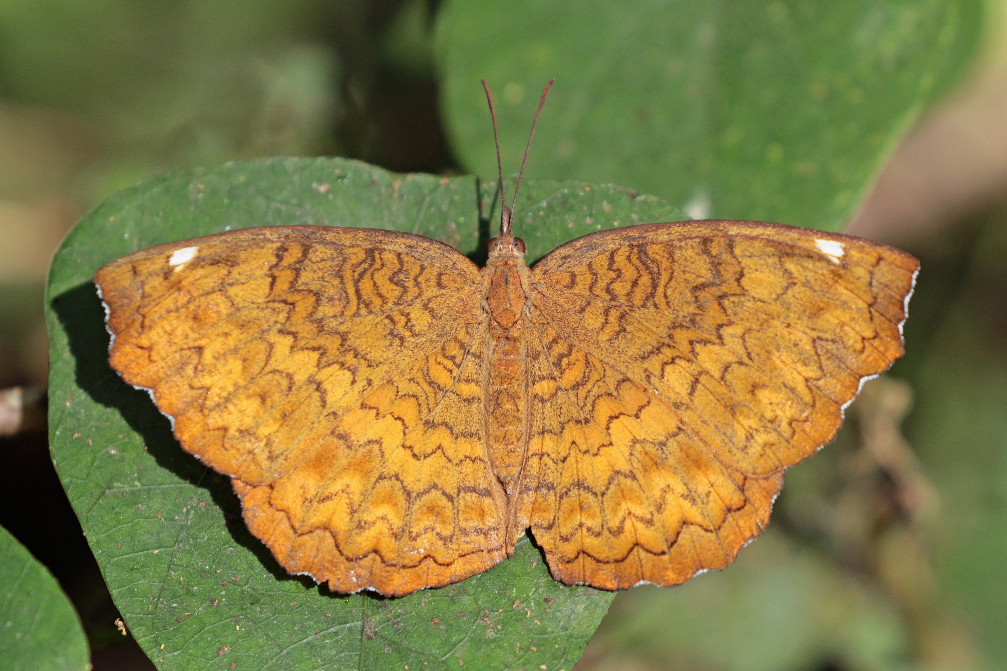 Common castor (Ariadne merione tapestrina) dry season form, National Botanical Garden, Godawari, Nepal